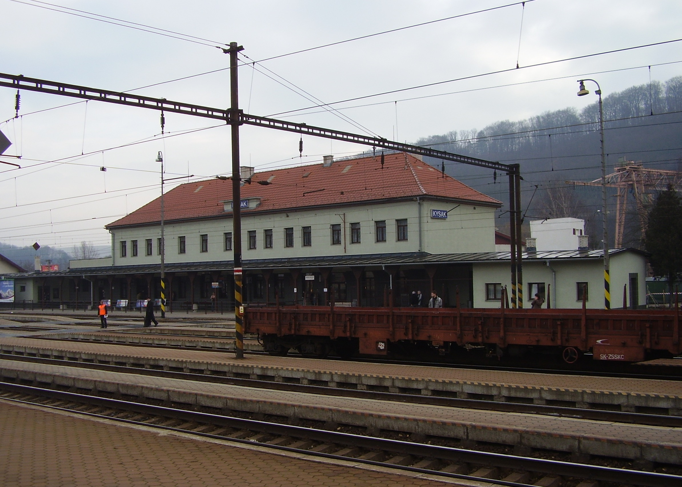 Kysak train station, Košice, Slovakia